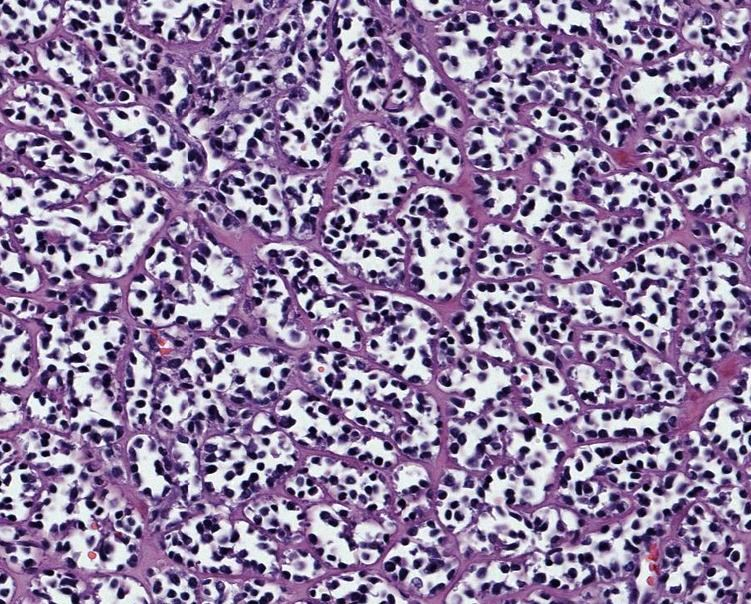 Sclerosing Rhabdomyosarcoma. Primitive round cells arranged in microalveoli, nests, and cords in a sclerotic background.